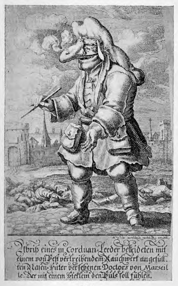 The legend at the bottom of the engraving has been translated thus: "Sketch of a doctor of Marseilles clad in cordovan leather equipped with a nose-case packed with plague-repelling smoking material. With the wand he is to feel the pulse." (Fletcher, p. 16)